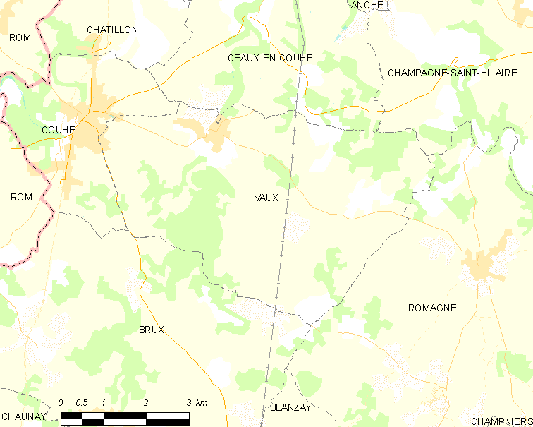 Map of French municipality Vaux